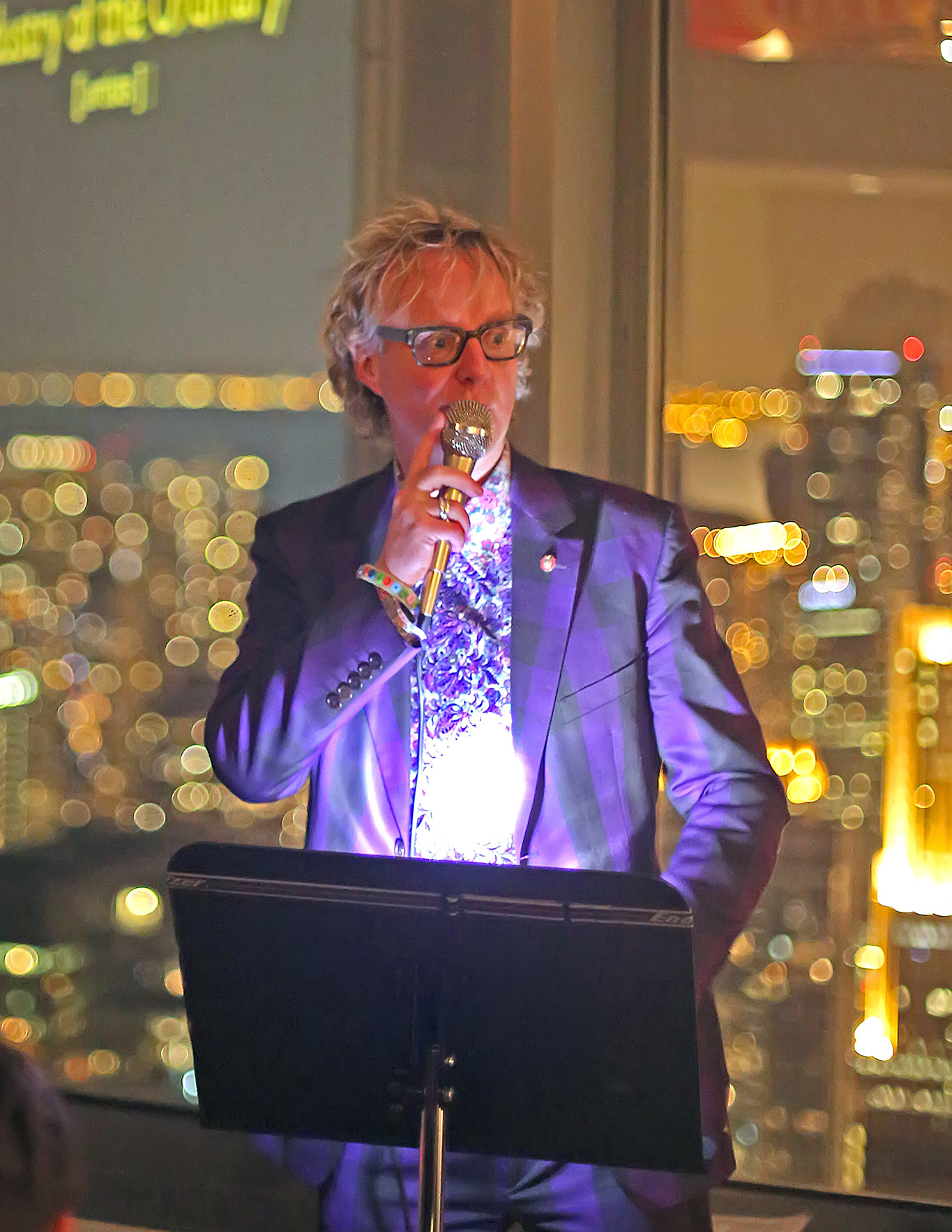 Peter Exley presents as part of PechaKucha Night Chicago at the home of the British Consul General, Chicago. January 18, 2013.